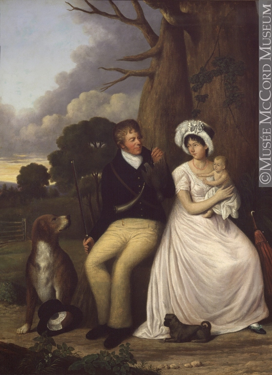 Painting William McGillivray of Montreal and his wife, 1806 William Berczy 1806, 19th century Oil on canvas 122.4 x 92.4 cm M18683 © McCord Museum